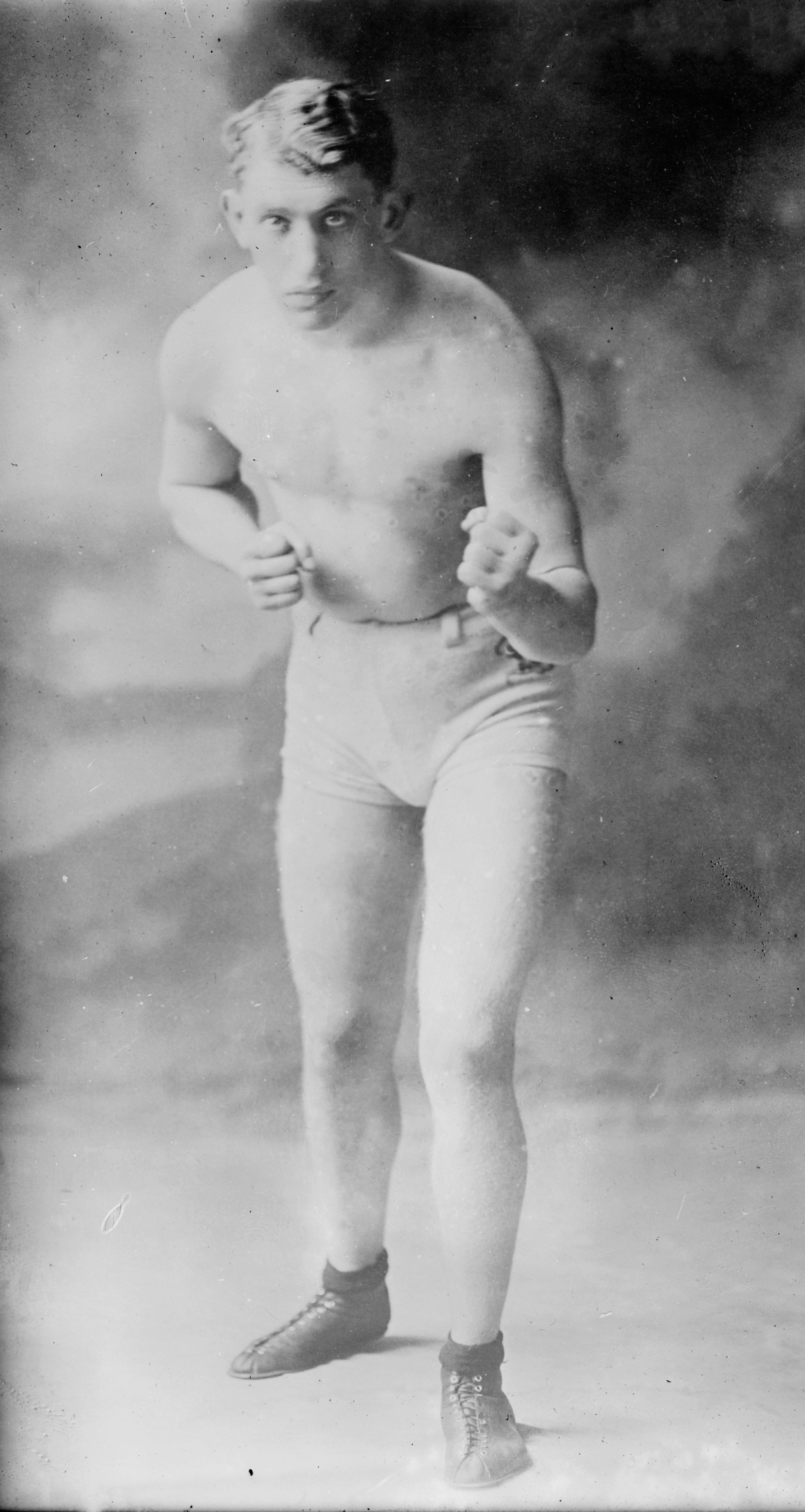 Barney Williams (better known as Battling Levinsky; born Barney Lebrowitz June 10, 1891 – died February 12, 1949 in Philadelphia, PA) was light heavyweight boxing champion of the world. pic from Bain News Service,, publisher. Bat. Levinsky between ca. 1910 and ca. 1915 1 negative : glass ; 5 x 7 in. or smaller. Notes: Title from unverified data provided by the Bain News Service on the negatives or caption cards. Forms part of: George Grantham Bain Collection (Library of Congress). Format: Glass negatives. Repository: Library of Congress, Prints and Photographs Division, Washington, D.C. 20540 USA, General information about the Bain Collection is available at Persistent URL: Call Number: LC-B2- 2942-12